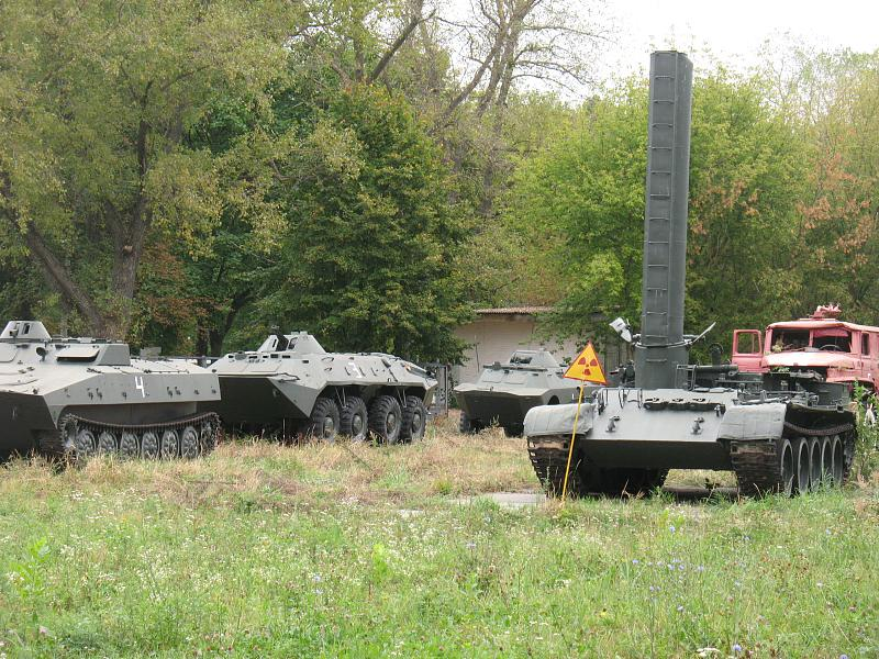 RKhM "Kashalot" (vehicle numbered four), BTR-70 (vehicle numbered three), BRDM-2 (vehicle in the back) and BTS-4 (vehicle with the snorkel), Pripyat near Chernobyl.